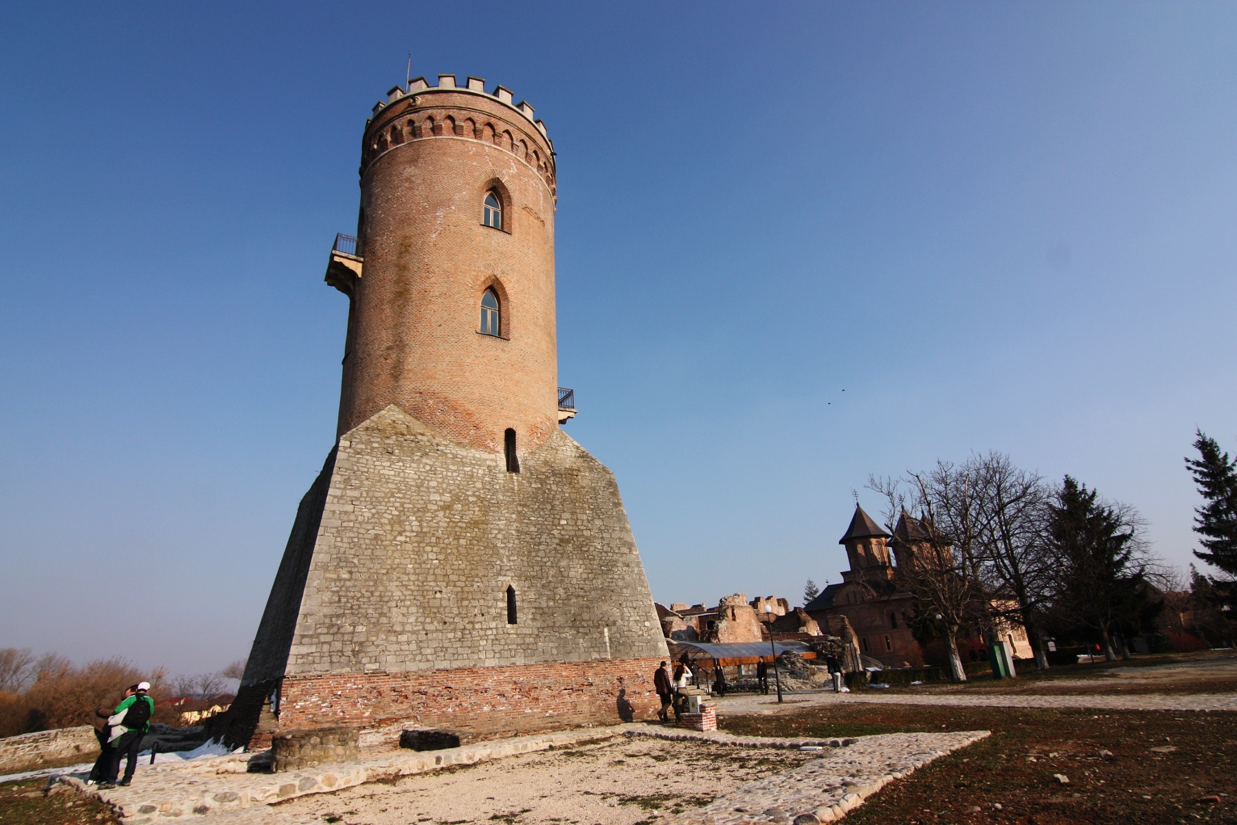 Chindia Tower from Curtea Domnească (voivodal palace) in Târgoviște